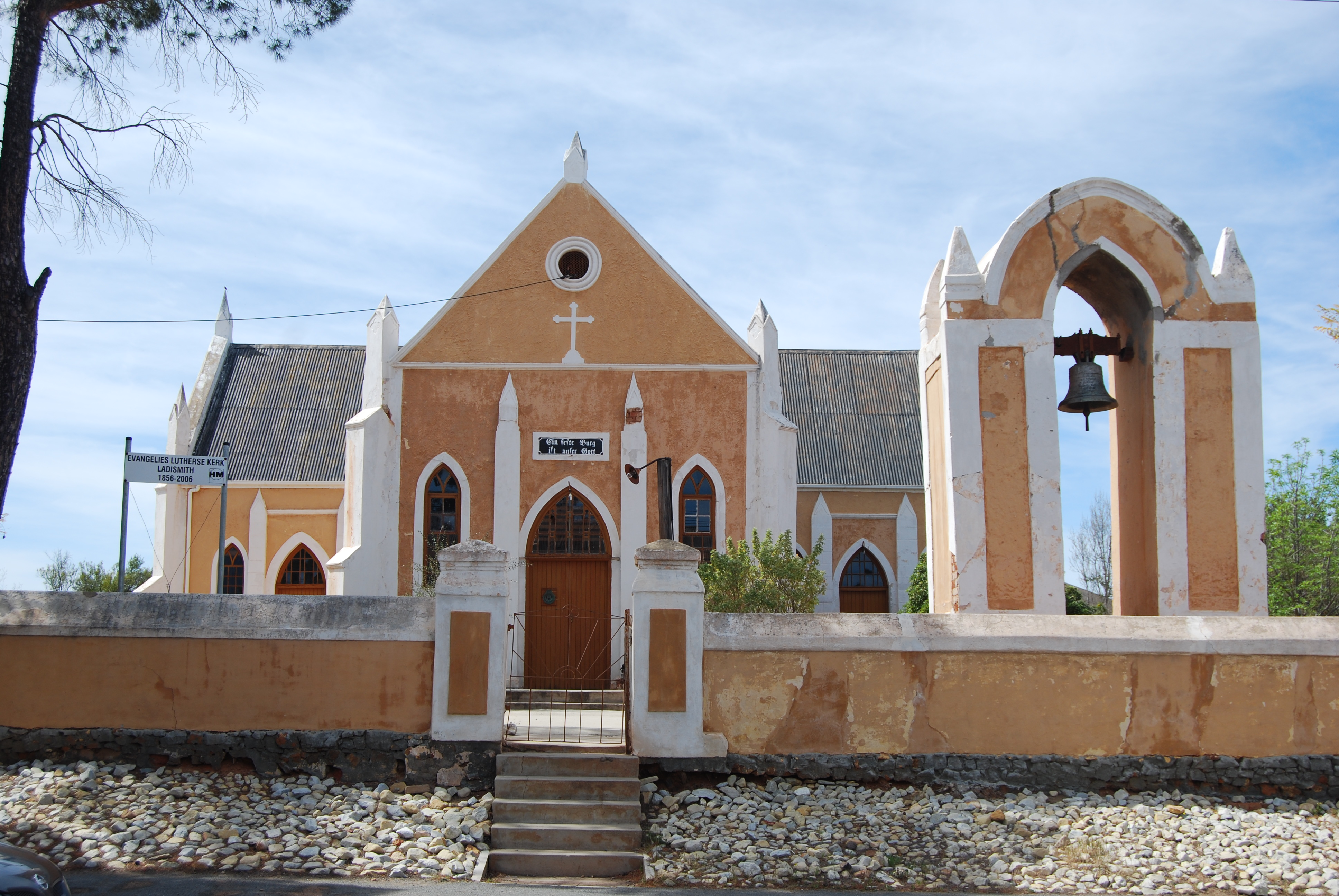 This media shows a South African Protected Site with SAHRA file reference 9/2/056/0010.